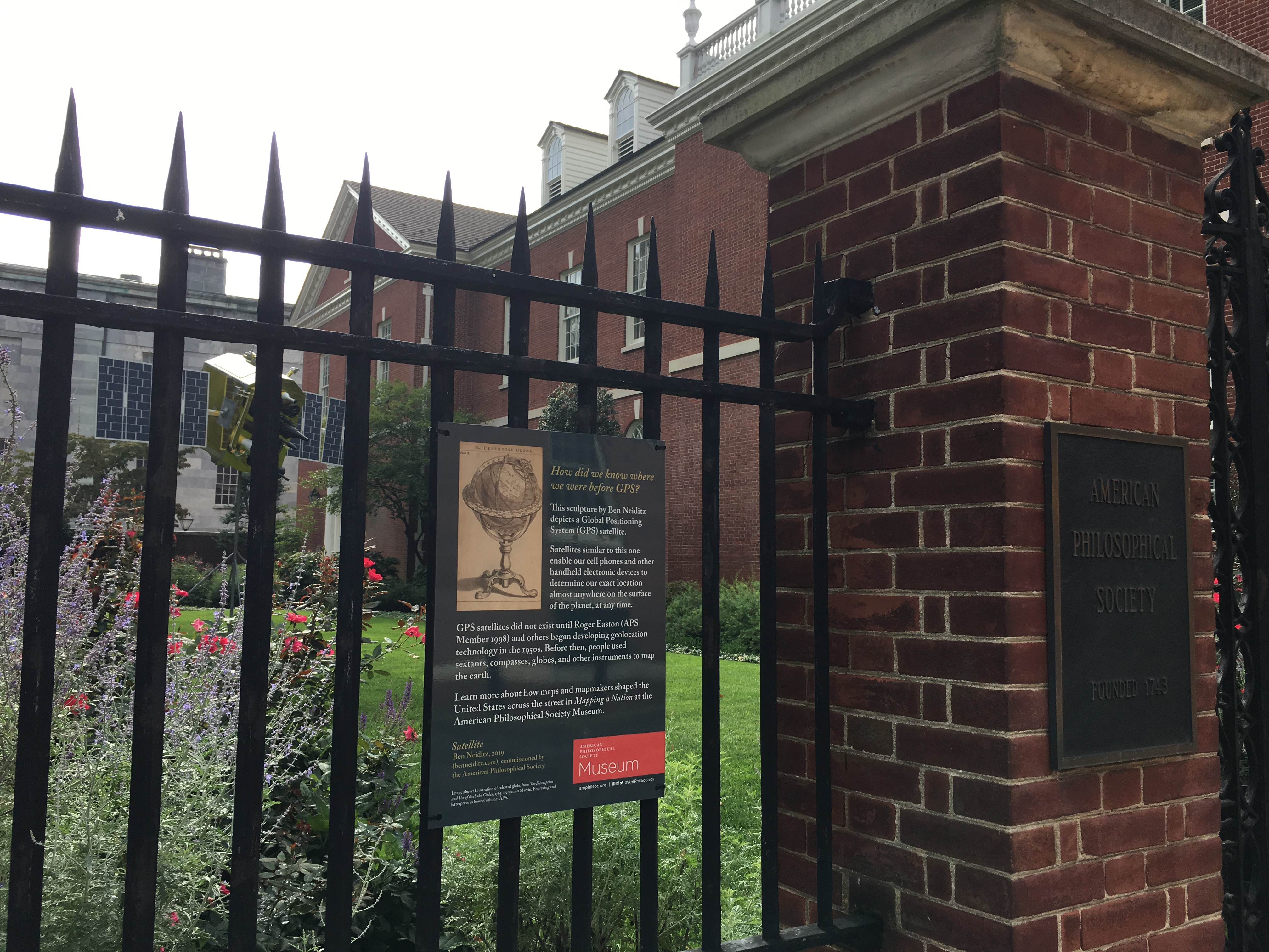 The Thomas Jefferson Garden adjacent to American Philosophical Society Library Hall, as seen from the fence along 5th Street in Philadelphia in early September 2019.